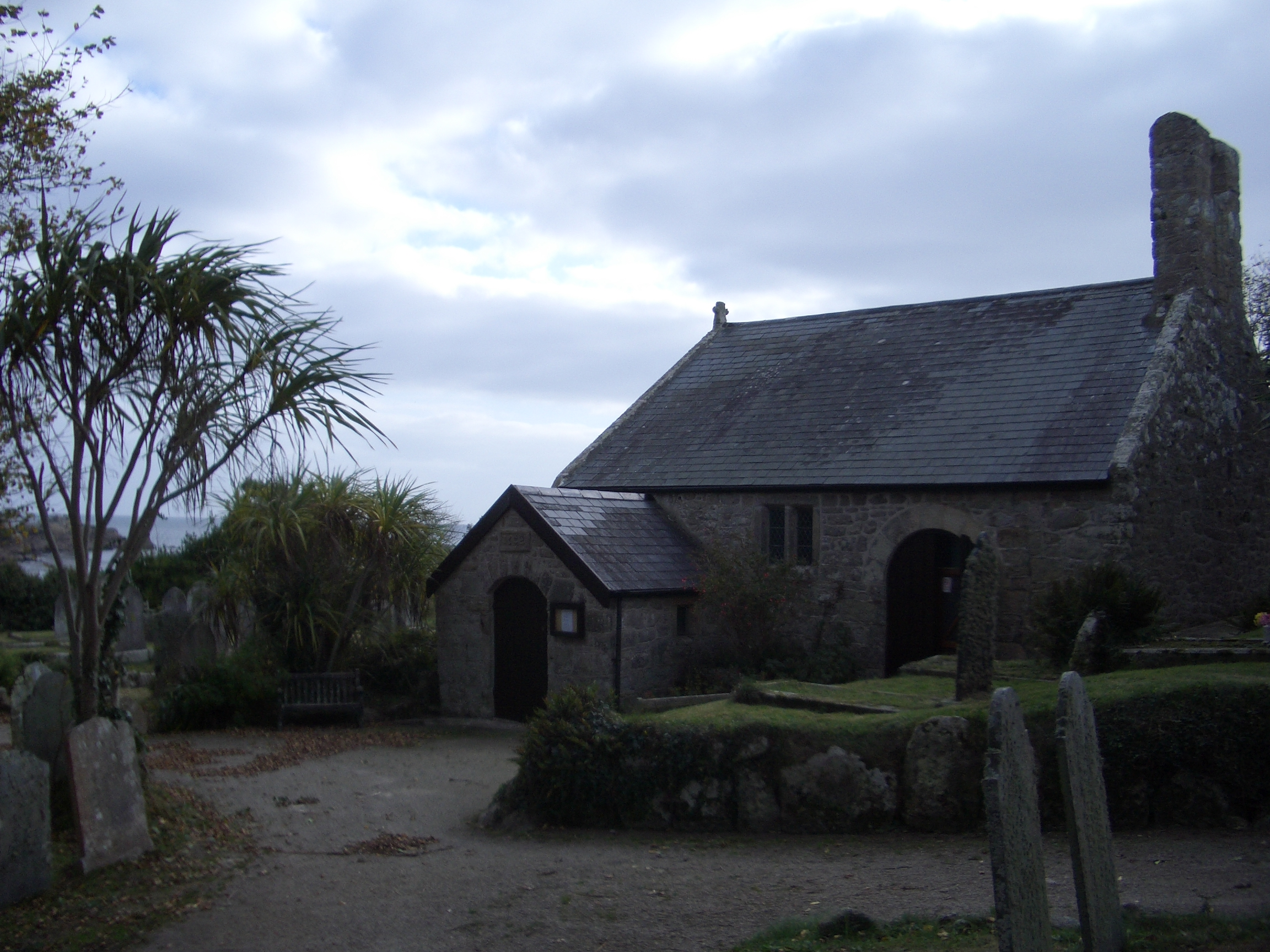 St Mary's Old Church, St Mary's